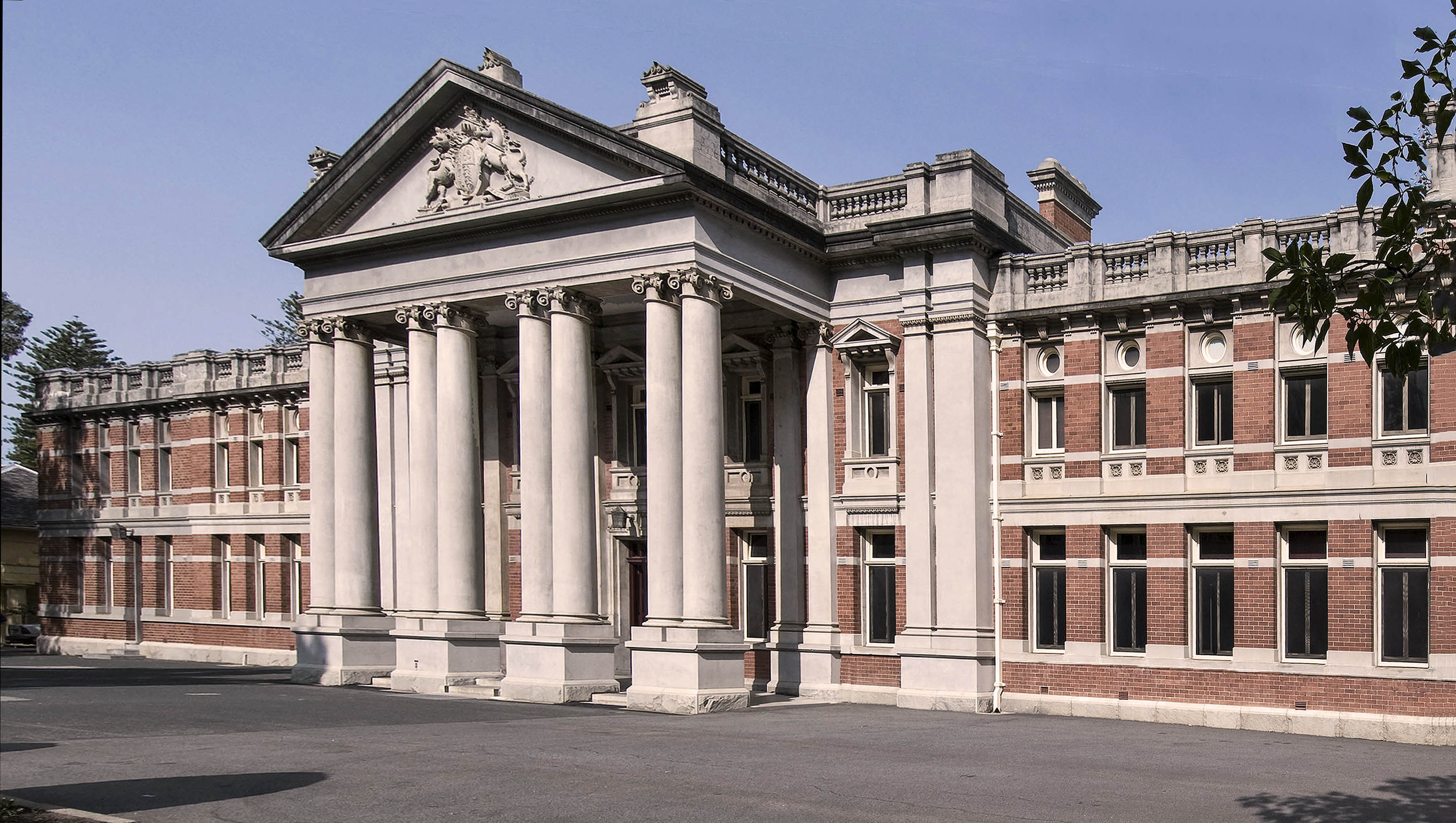 Supreme Court, north front